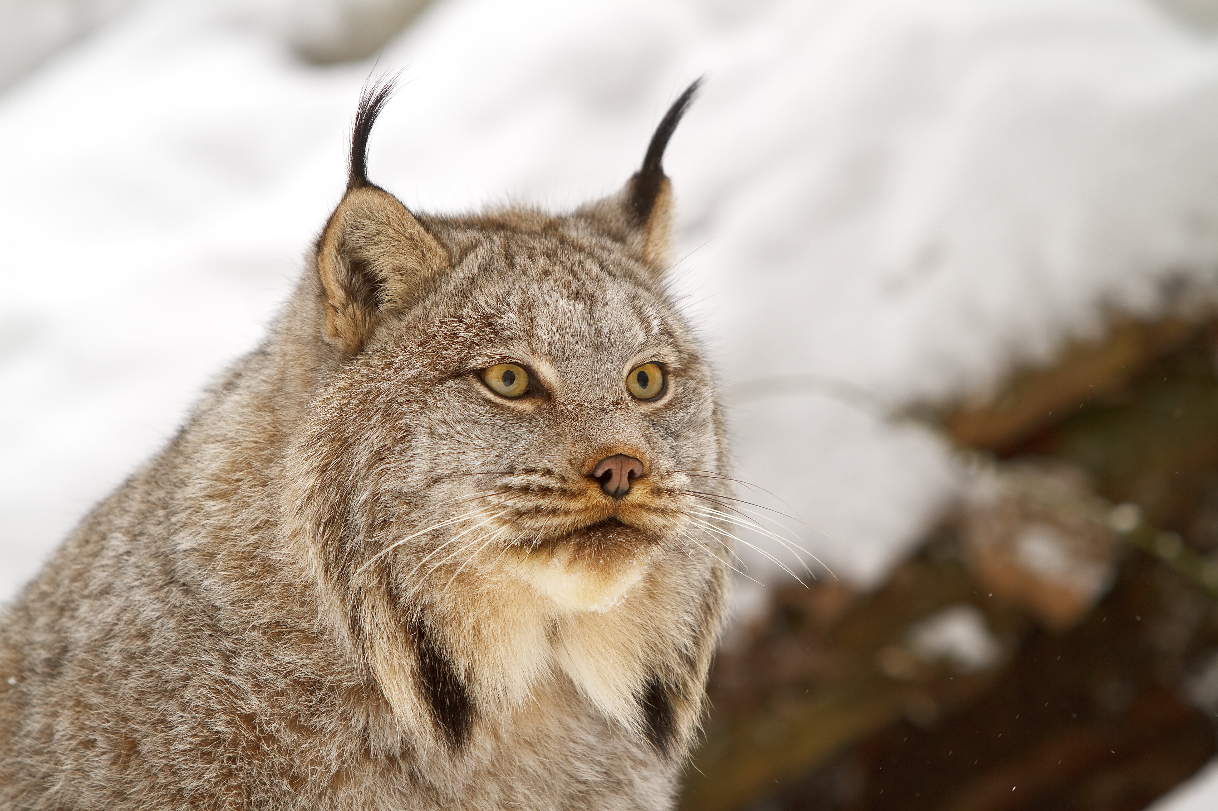 Canada lynx by Michael Zahra.